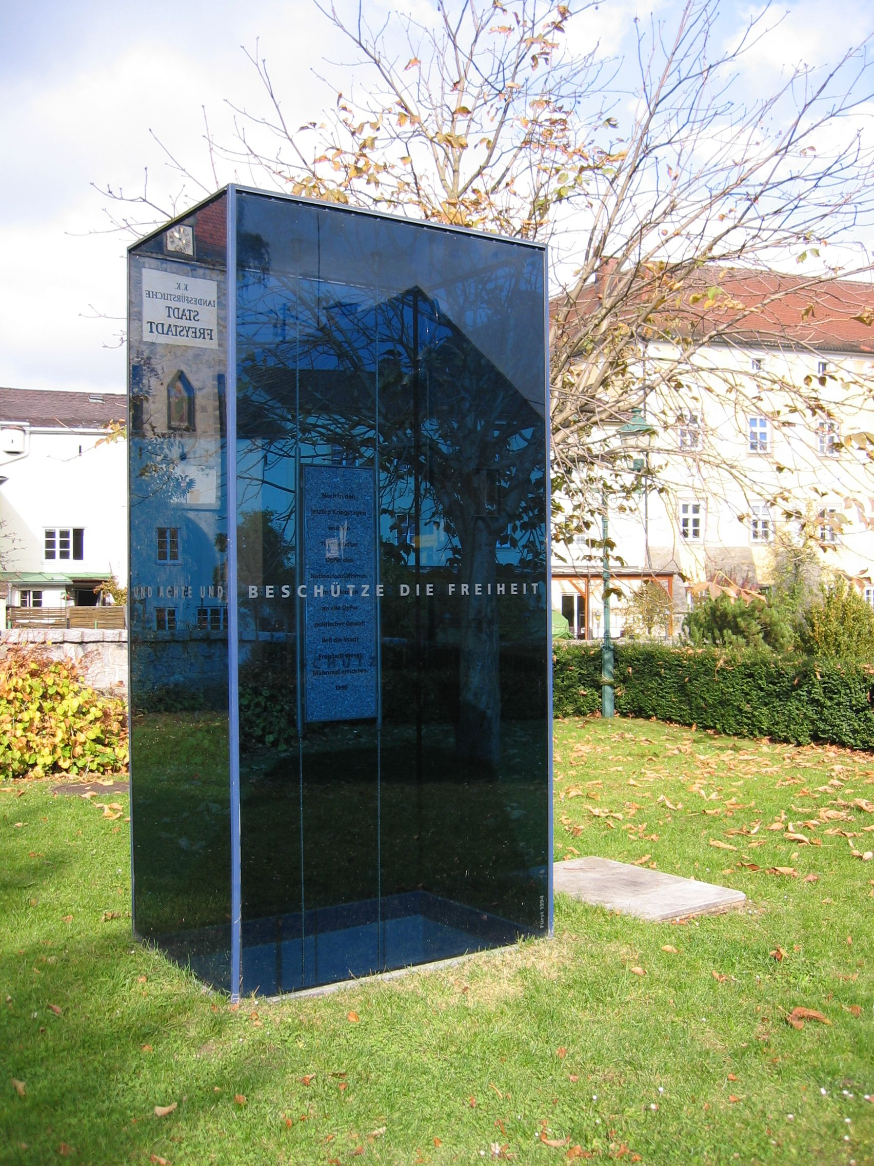 Monument for NAZI-Victims